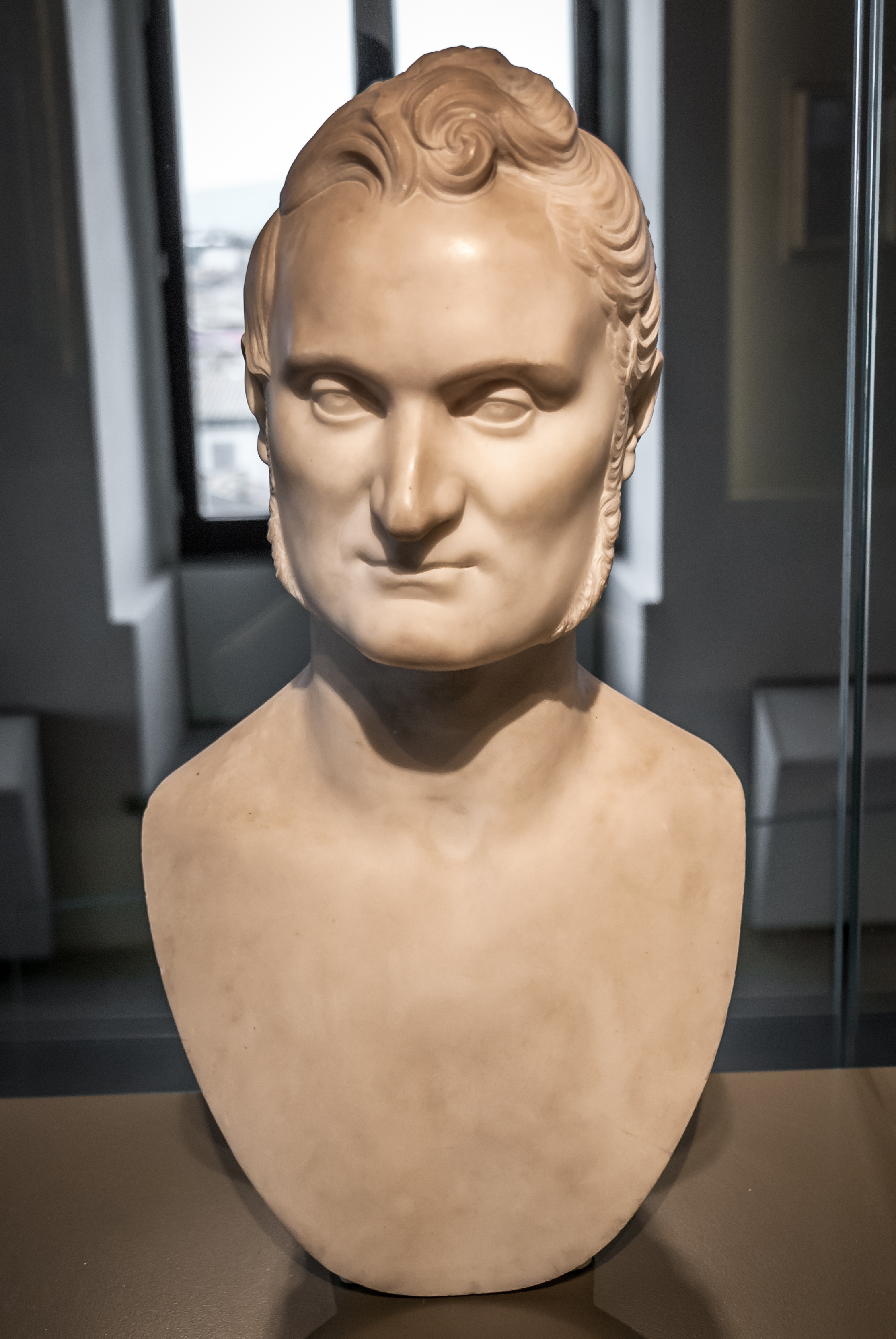 Lorenzo Bartolini - Thomas Moore chest (1840) in Palazzo Pretorio in Prato